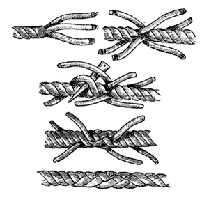 Making a short splice. Untwist the ends of the rope for a few inches and seize with twine to prevent further unwinding, as shown at A, A; also seize the end of each strand to prevent unravelling and grease or wax the strands until smooth and even. Now place the two ends of the ropes together as shown at B, B. Then with a marline-spike, or a pointed stick, work open the strand 1c, and through this pass the strand A of the other rope; then open strand 2 and pass the next strand of the other rope through it and then the same way with the third strand. Next open up the strands of the other rope, below the seizing, and pass the strands of the first rope through as before. Now untwist the six strands and cut away about half the yarns from each and seize the ends as before; pass these reduced strands through under the whole strands of the rope—the strands of the left under the strands of the right rope and vice versa—for two or three lays and then cut off projecting ends, after drawing all as tight as you can. If an extra-neat splice is desired the strands should be gradually tapered as you proceed, and in this way a splice but little larger than the original diameter of the rope will result. The only difficulty you will find in making this splice is in getting the strands to come together in such a way that two strands will not run under the same strand of the opposite rope. To avoid this, bear in mind that the first strand must be passed over the strand which is first next to it and through under the second and out between the second and third. In the following operations the strands are passed over the third and under the fourth; but the figures will make this perfectly clear. Modified by combining and reorganizing Figs. 106 and 106d from online version